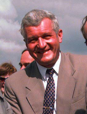 Valeriy Shmarov, Ukrainian politician, former Minister of Defence of Ukraine and member of the Ukrainian Verkhovna Rada